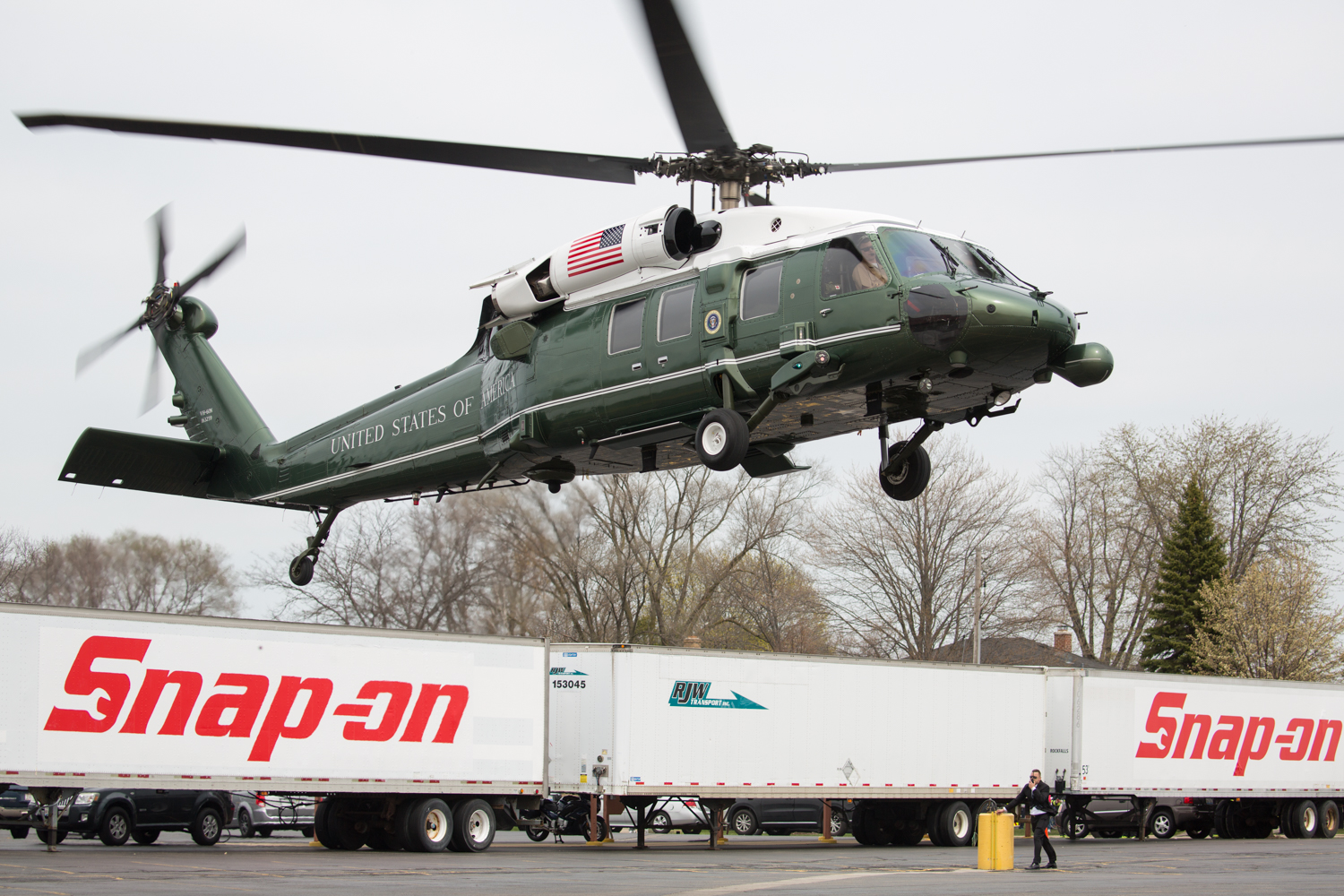 President Donald J. Trump lands in Kenosha, WI on Marine One to deliver remarks at Snap-on Tools and to sign his "Buy American, Hire American" Executive Order, Tuesday, April 18, 2017.